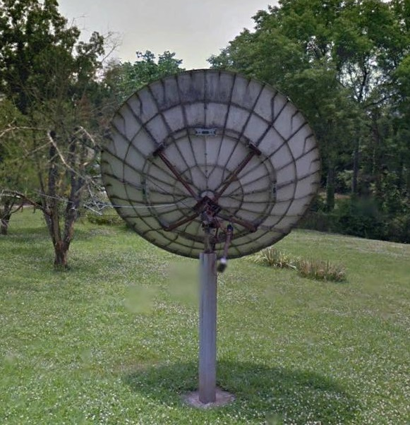 A photo of the back side of an old C-band satellite dish.